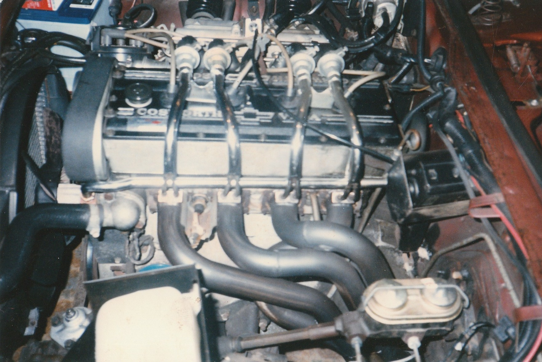 Cosworth Vega Engine (1976 Cosworth Vega #2673)